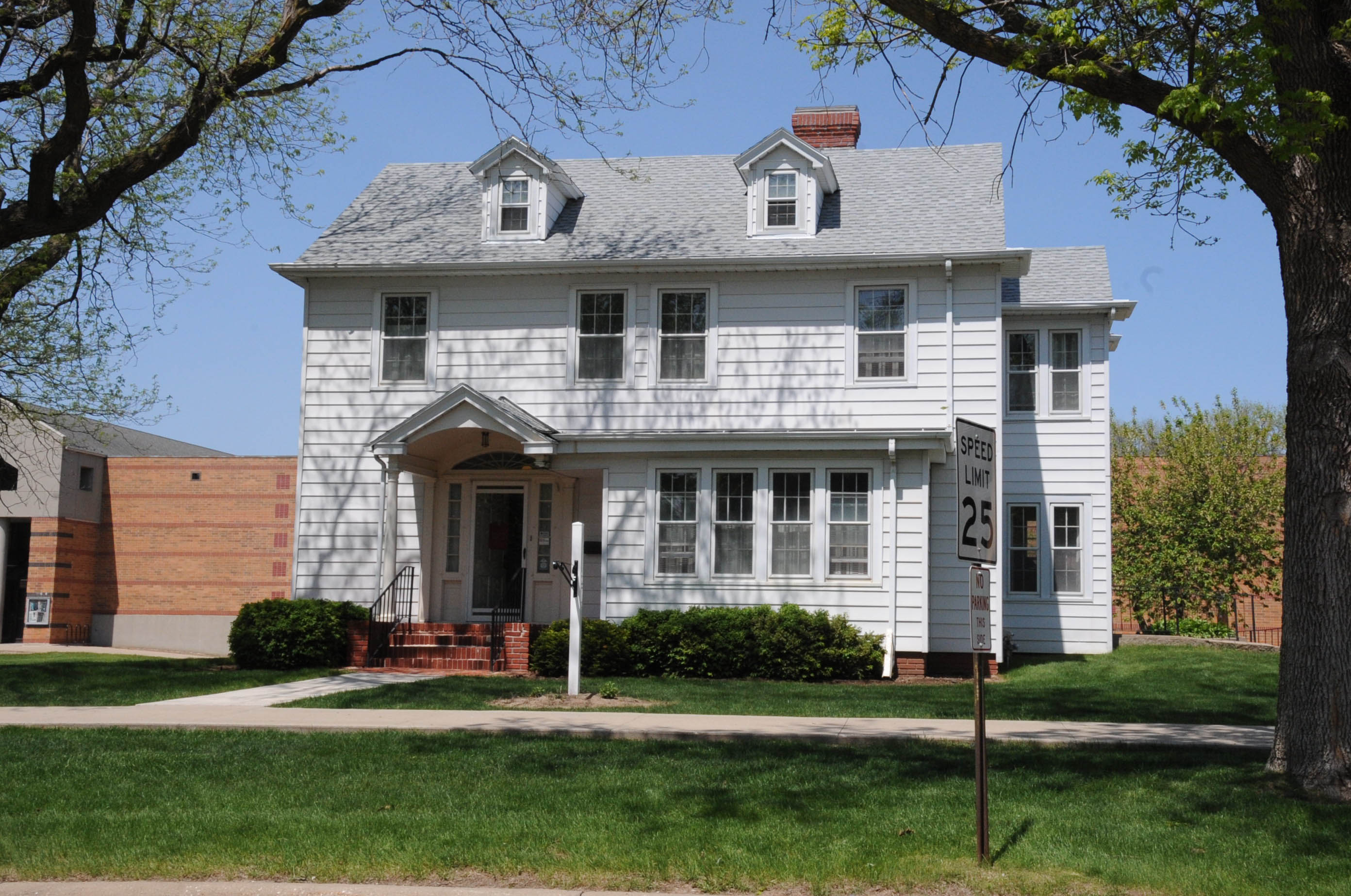 THE COLLEGE WAS FOUNDED IN 1894. LILLIAN E. DIMMITT ALUMNI HOUSE BUILT IN 1921. HOME OF THE DEAN FOR WOMEN FOR 26 YEARS; NOW USED AS A MEETING PLACE AND SMALLER GATHERINGS